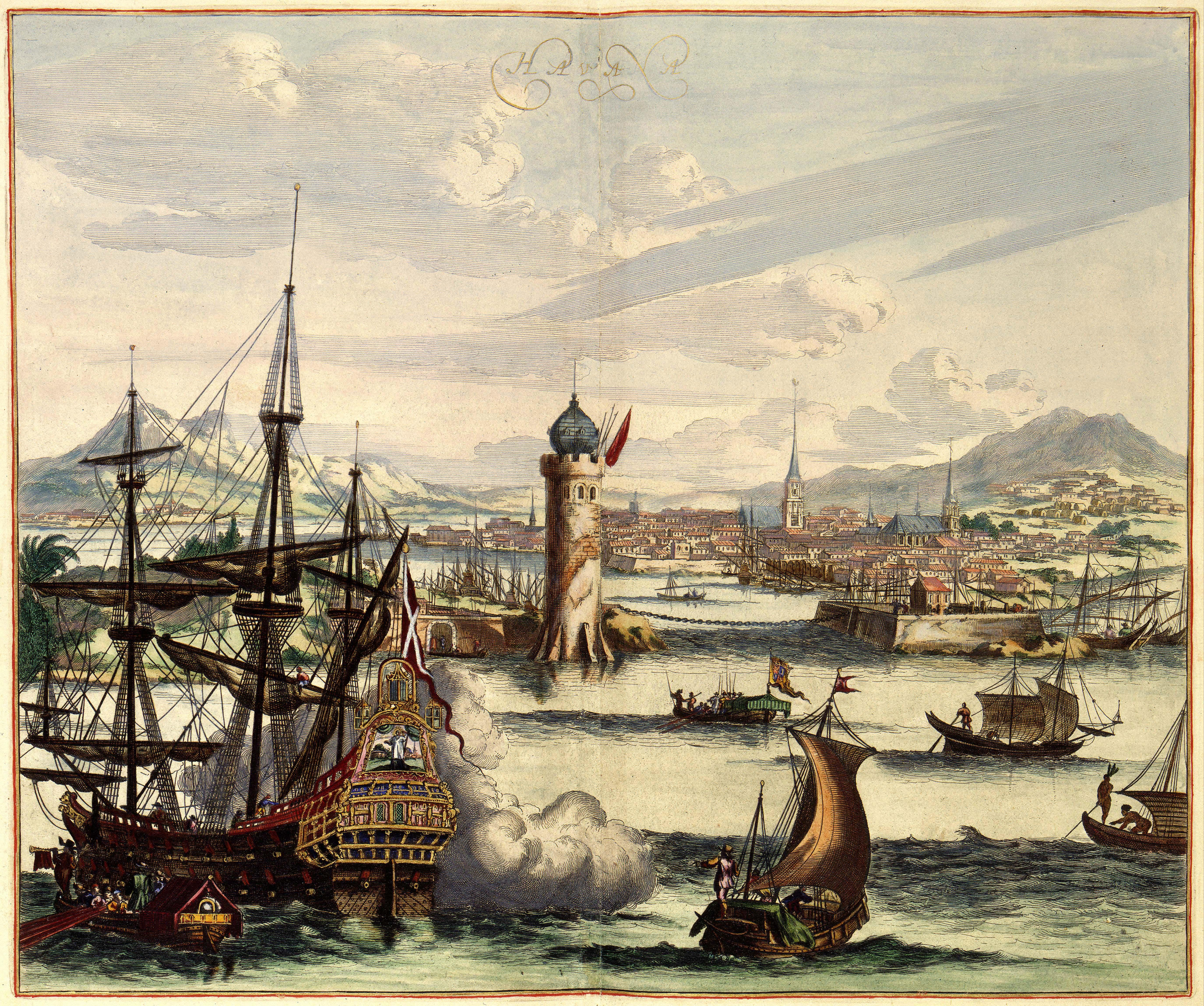 17th century depiction of Havana. Place of manufacture: Amsterdam.